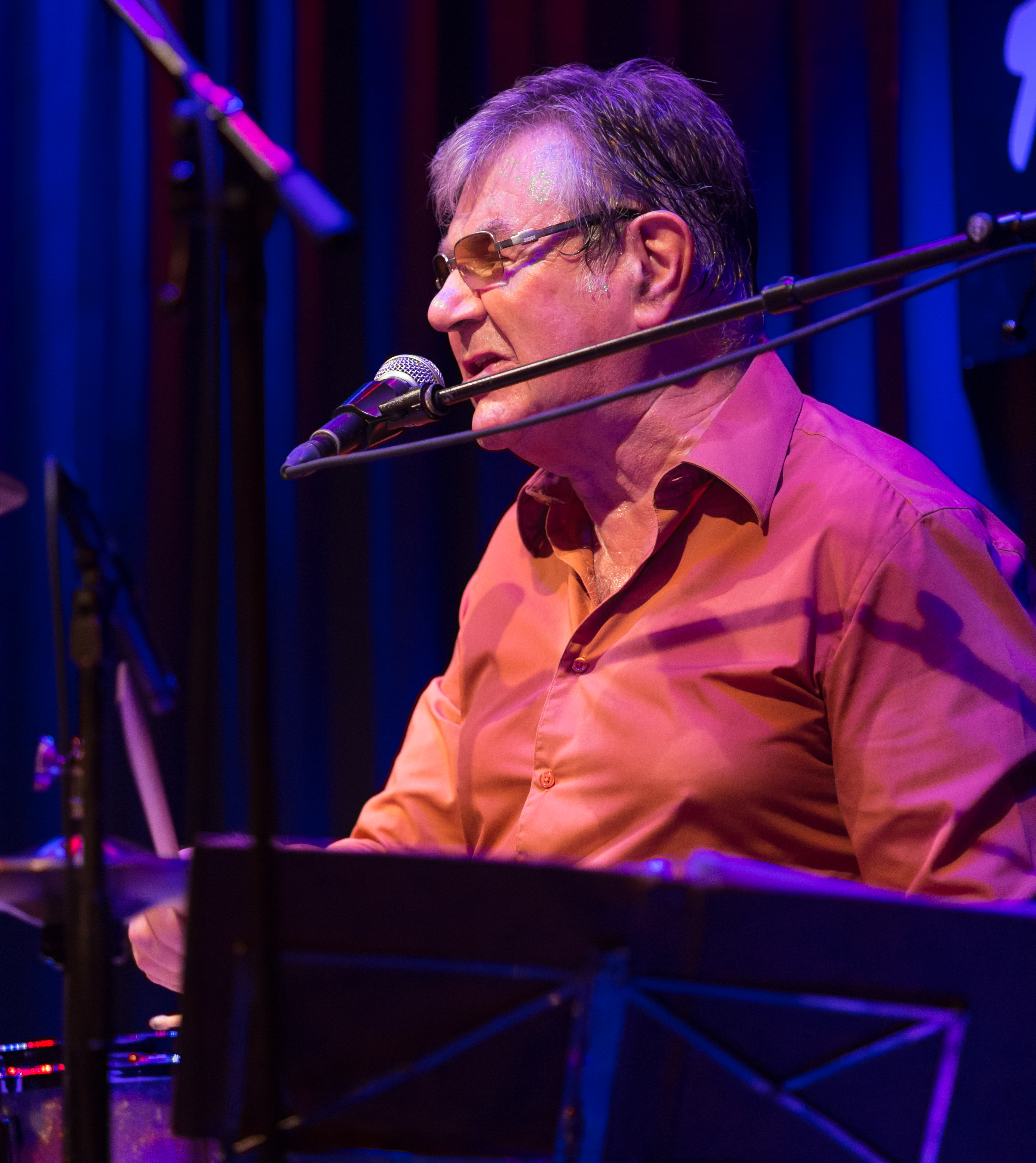 Pete York, in concert at Harmonie in Bonn